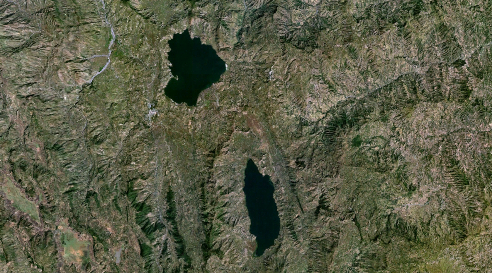 Lake Hayk (Top) and Lake Hardibo as seen from space.